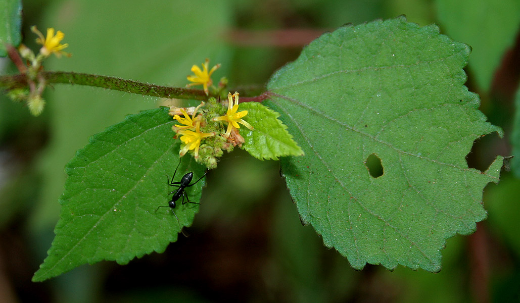 Triumfetta pentandra (syn. T. cuneata, T. neglecta)- Fivestamen Burrbark • Marathi: निचर्डी Nichardi • Telugu: Chirusitrika at Ananthagiri Hills, in Rangareddy district of Andhra Pradesh, India.